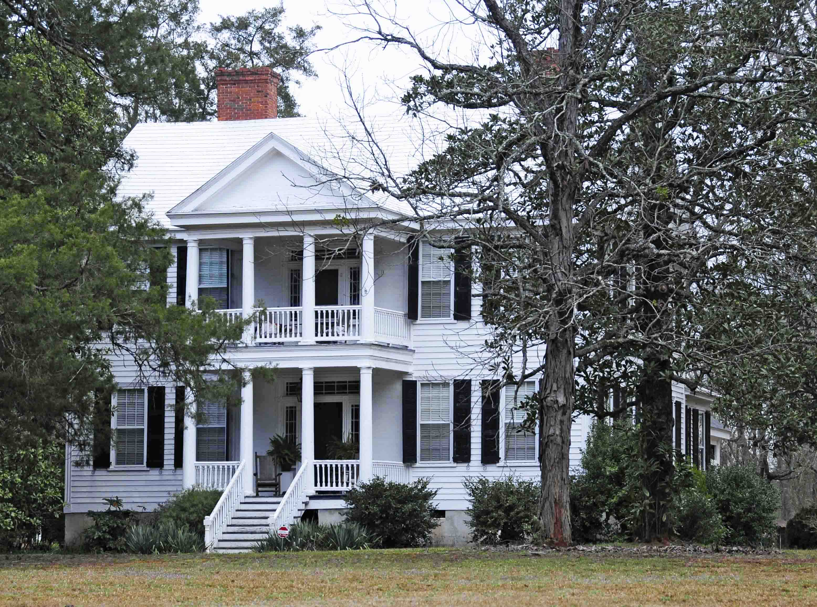 Pomaria